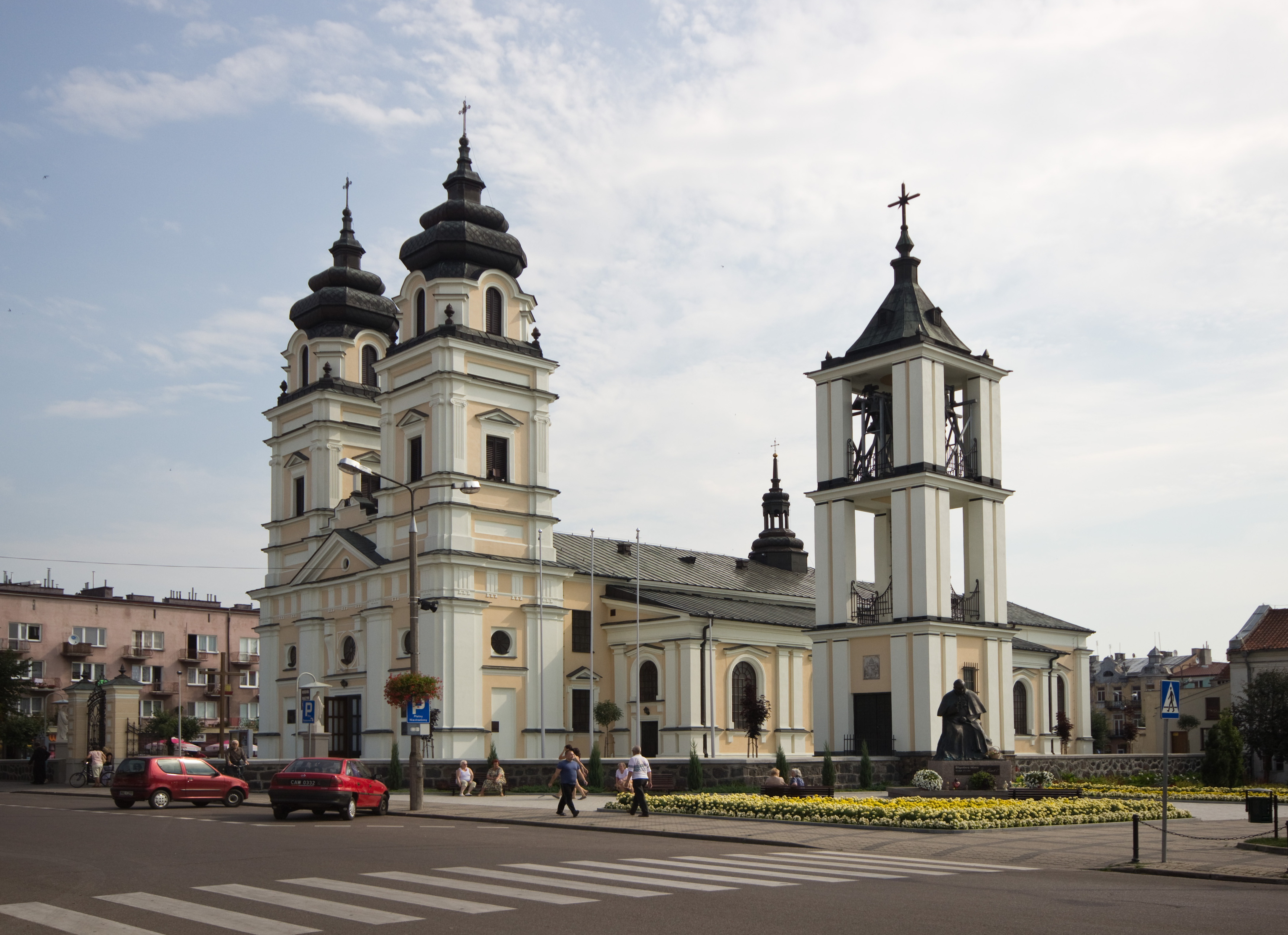 Mława, gmina miejska, powiat mławski, Masovian Voivodeship